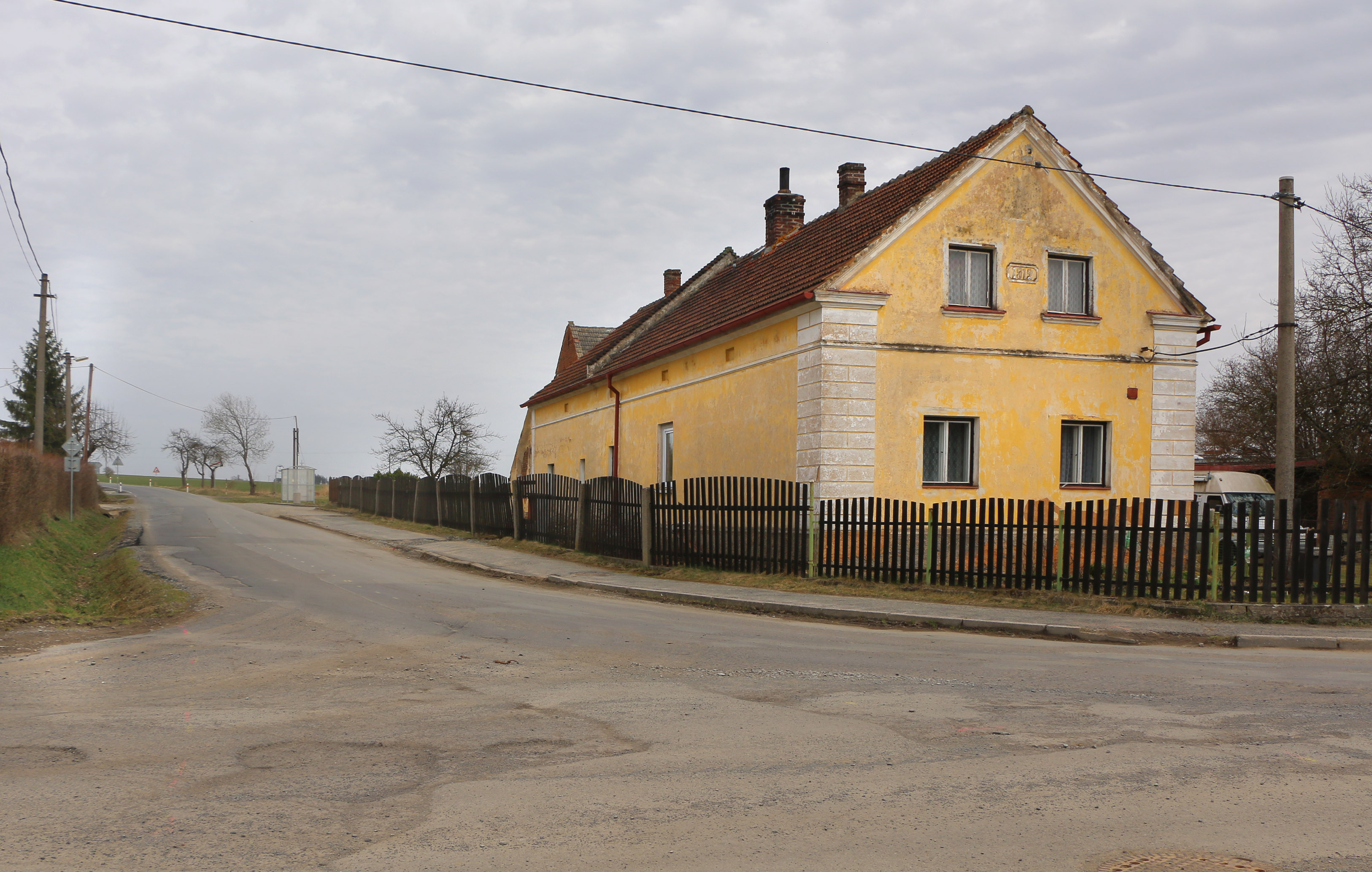 Road No 193 in Pernarec, Czech Republic.